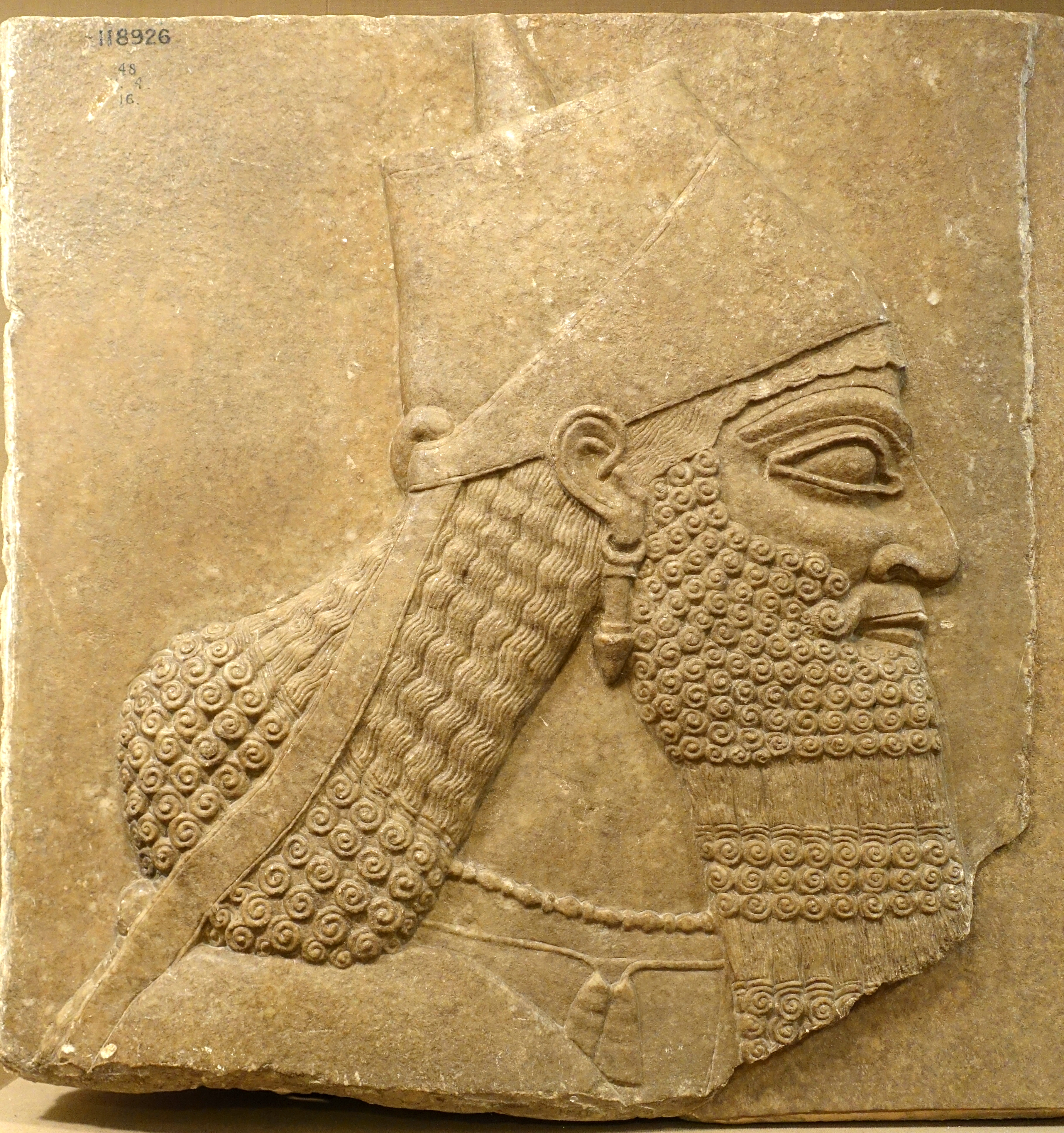 Exhibit in the Oriental Institute Museum, University of Chicago, Chicago, Illinois, USA. This work is old enough so that it is in the public domain.